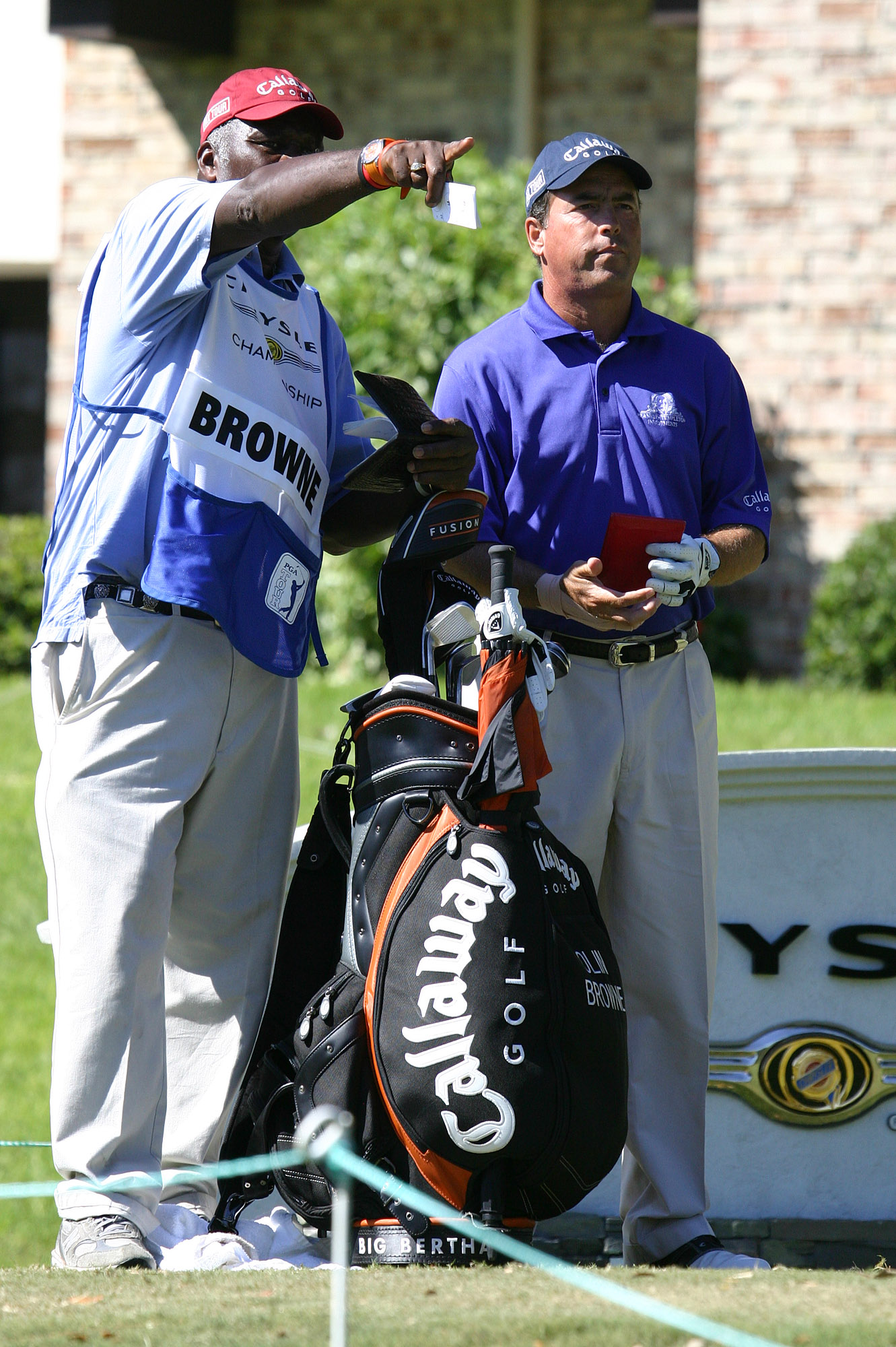 Olin Browne at the 2006 Chrysler Championship PGA golf tournament, Palm Harbor, Florida, practice round.